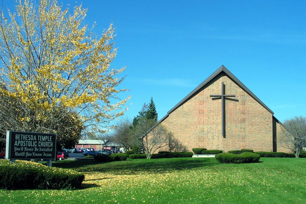 Bethersda Temple Apostolic Church near Dayton, Ohio, USA.Salem Ave Church, Dayton, Ohio